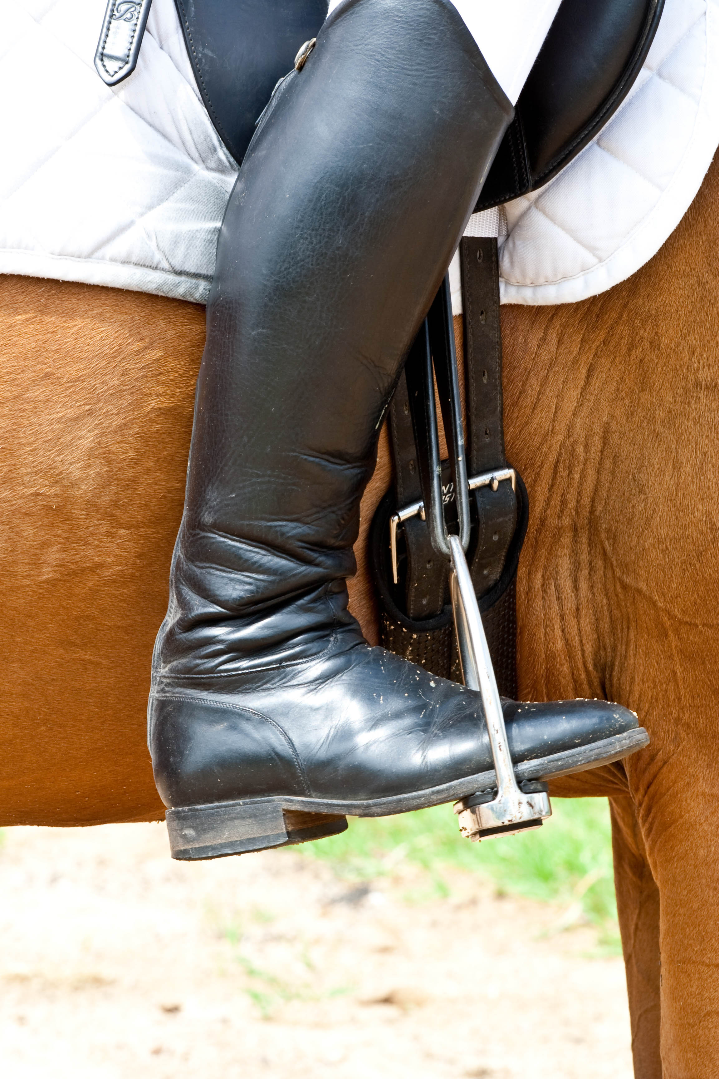 Dressage boot